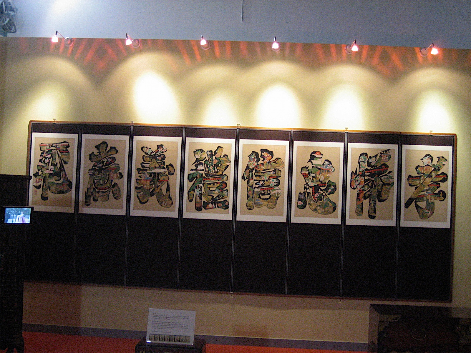 A scene of Gyeongju, Gyeongsangbuk-do, South Korea on 2007-10-04